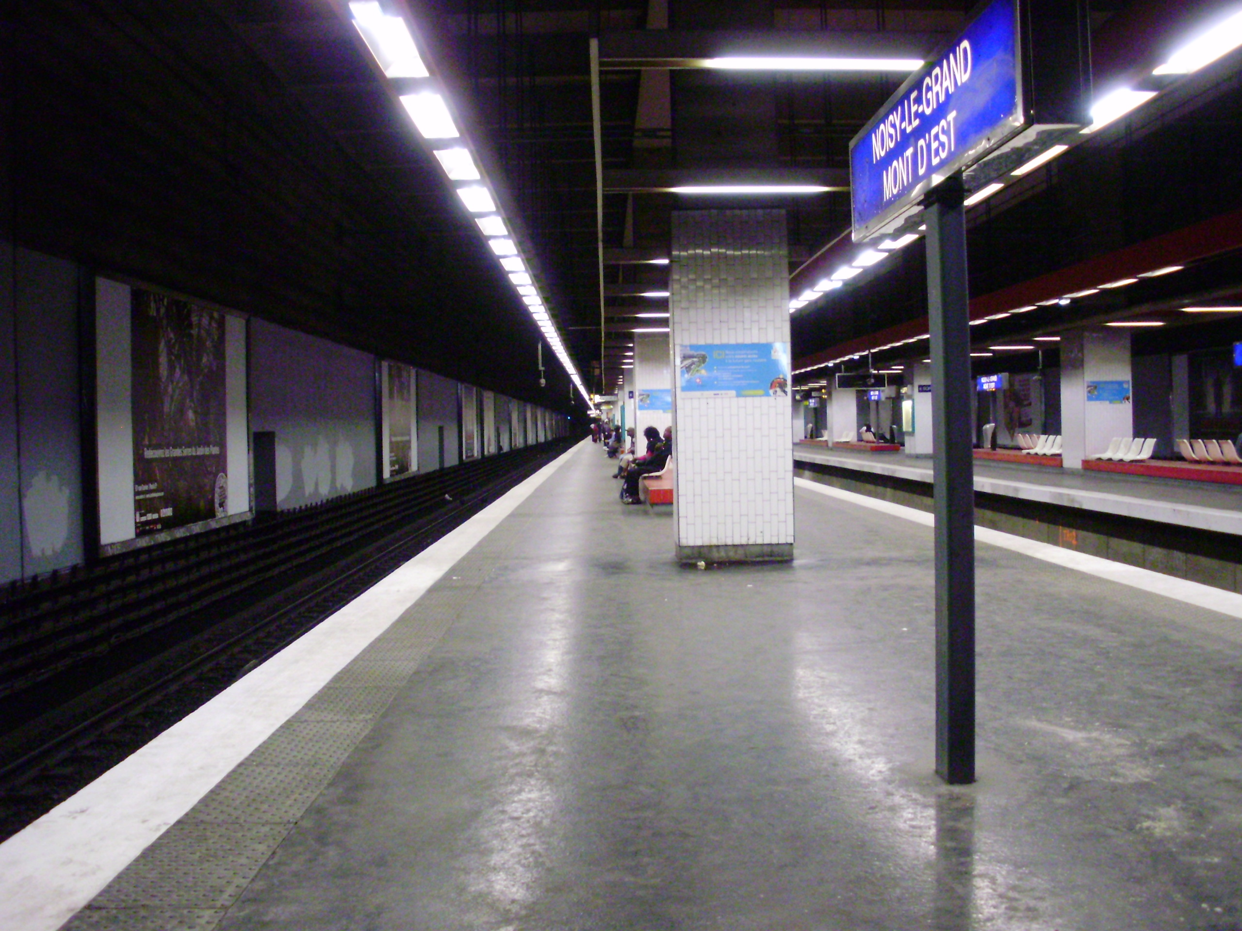 Noisy-le-Grand - Mont d'Est station, Seine-Saint-Denis, France (platform towards Paris)